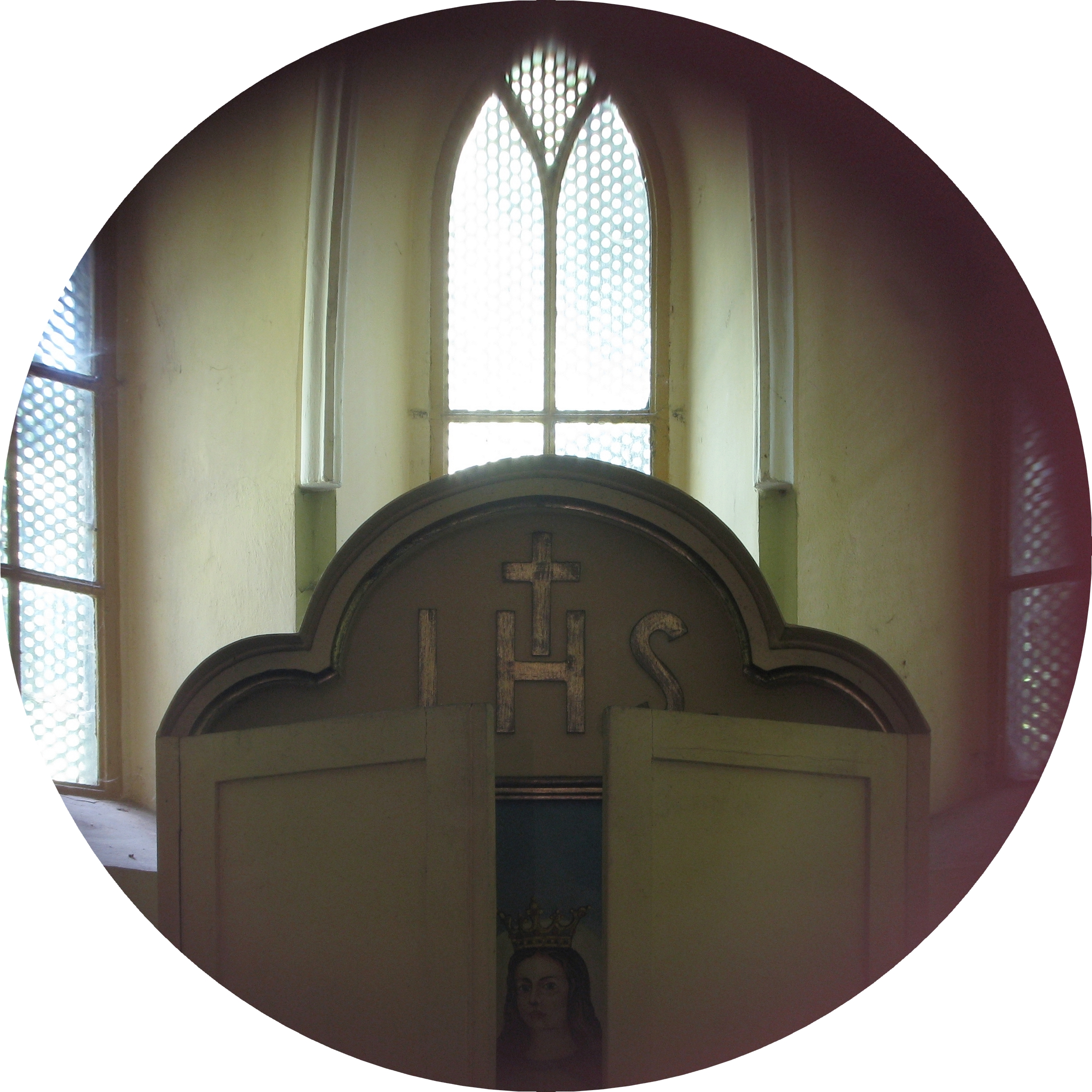 Bytom Gryca chapel interior